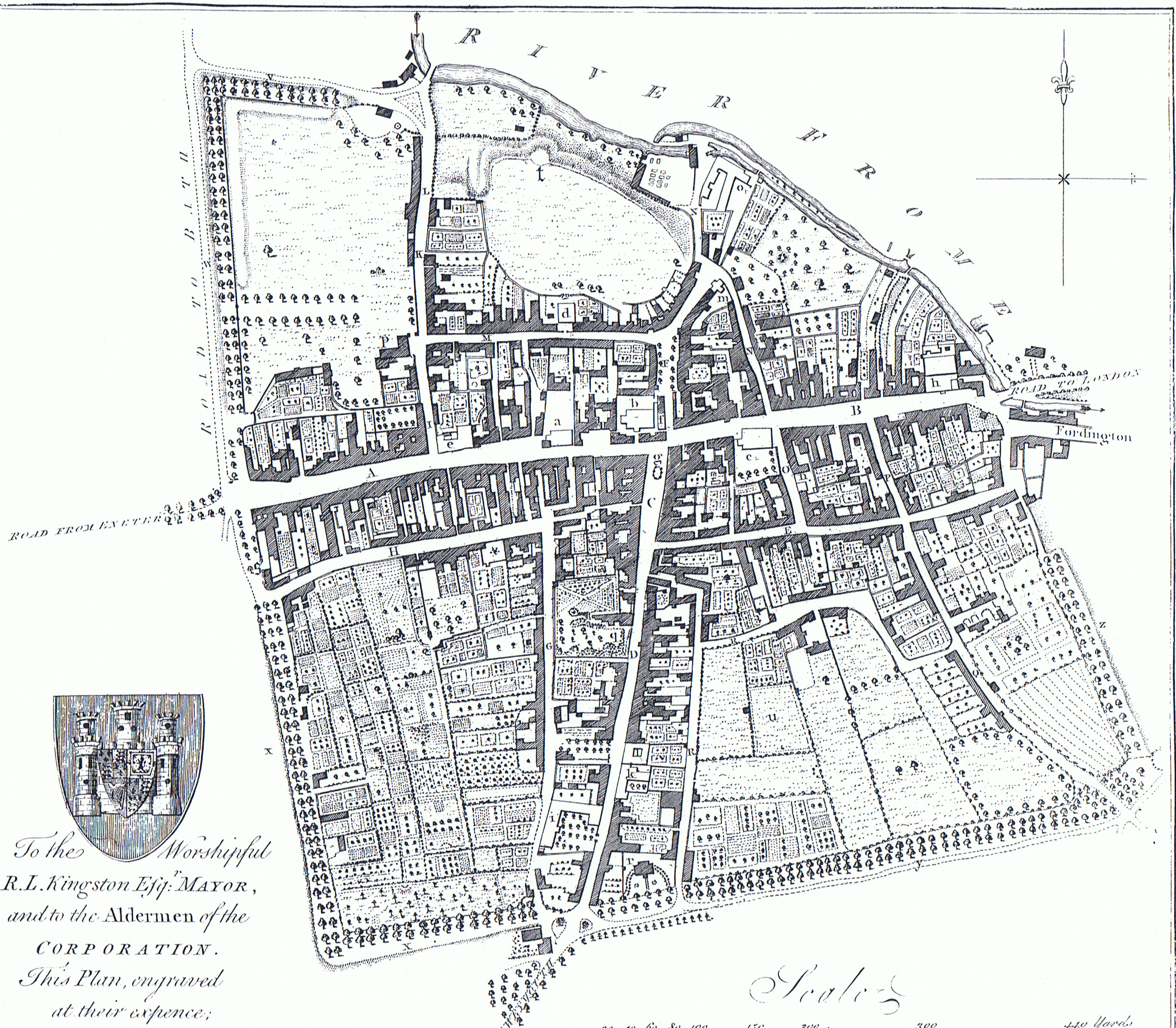 Dorchester, Dorset, in 1771. Scale is 2 furlongs or 440 yards to three and a half inches.